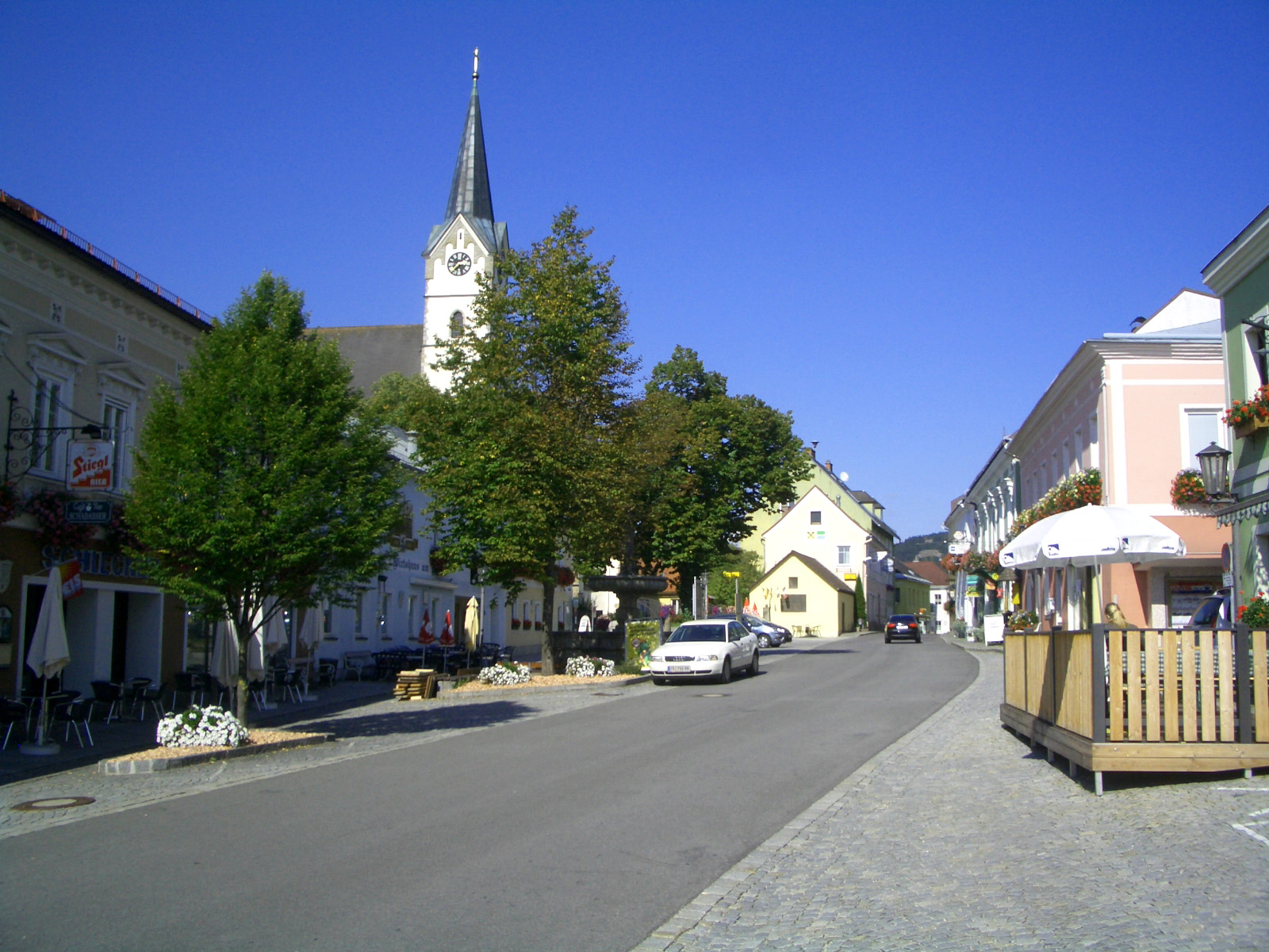 Center of Königswiesen, Upper Austria